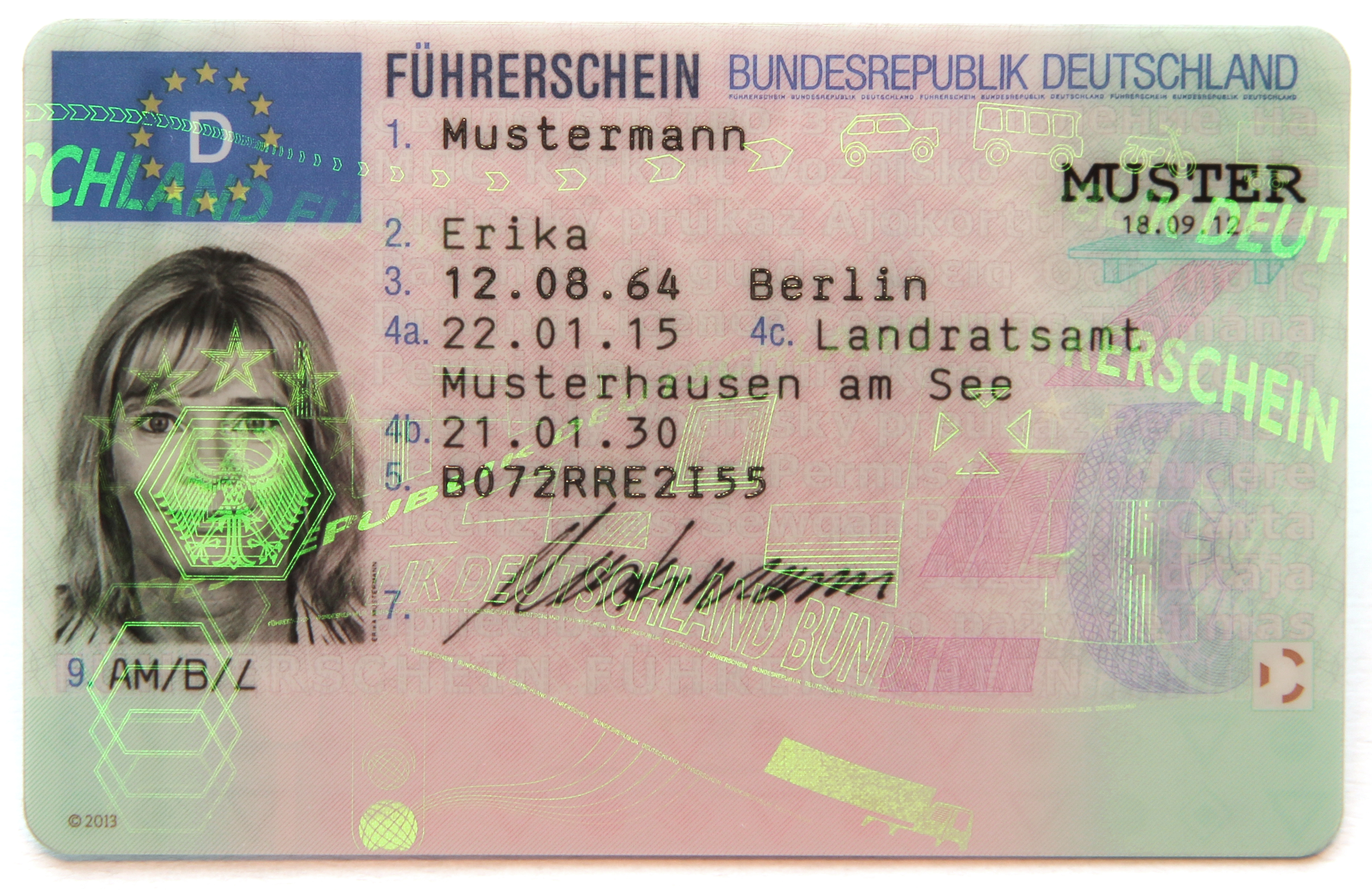 Specimen for the European driving licence used in Germany since 2013, front side